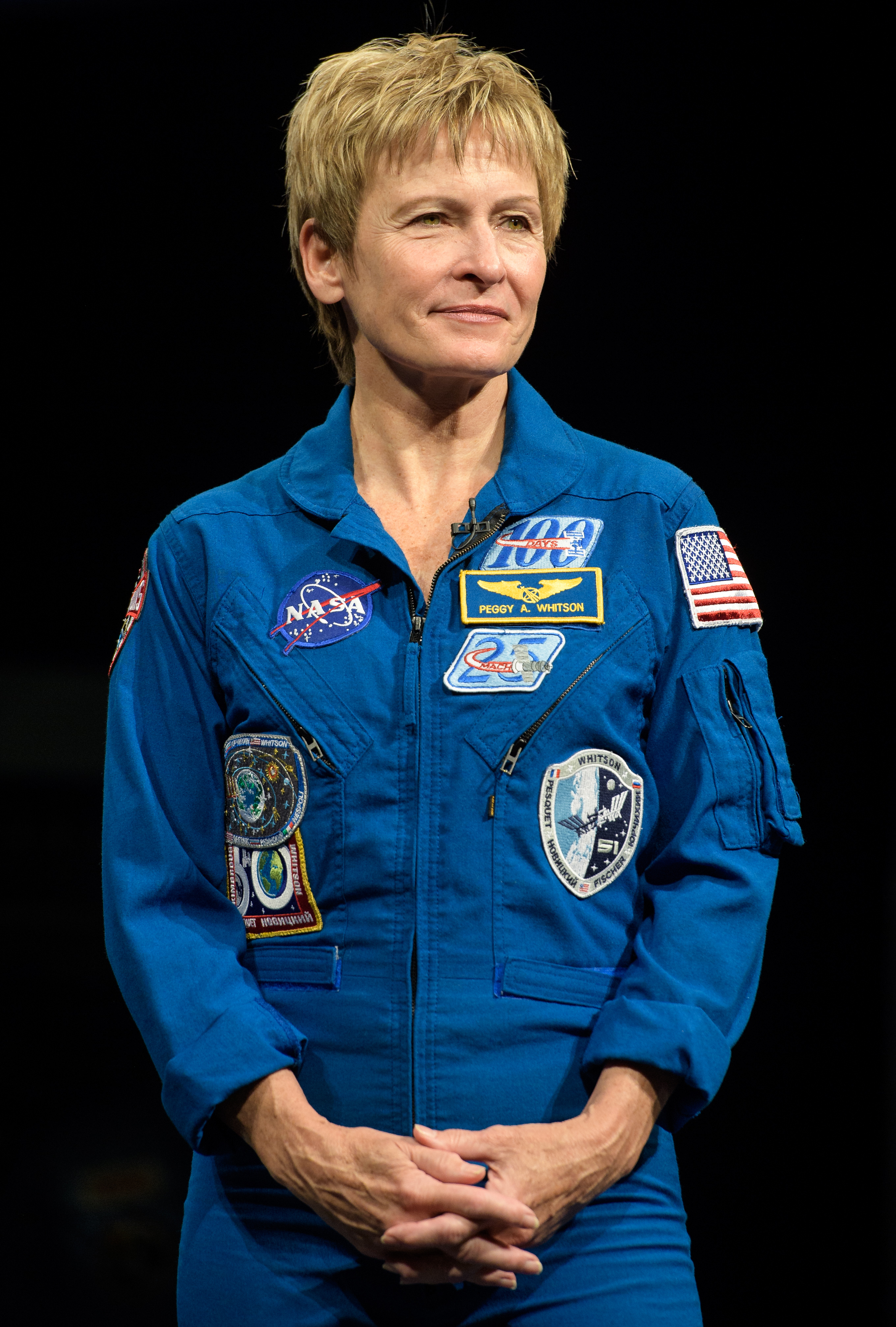 NASA astronaut Peggy Whitson is seen during an interview, Friday, March 2, 2018 at the Smithsonian's National Air and Space Museum in Washington. Whitson spent 288 days onboard the International Space Station as a member of Expedition 50, 51, and 52, conducting four spacewalks and contributing to hundreds of experiments in biology, biotechnology, physical science and Earth science during her stay.